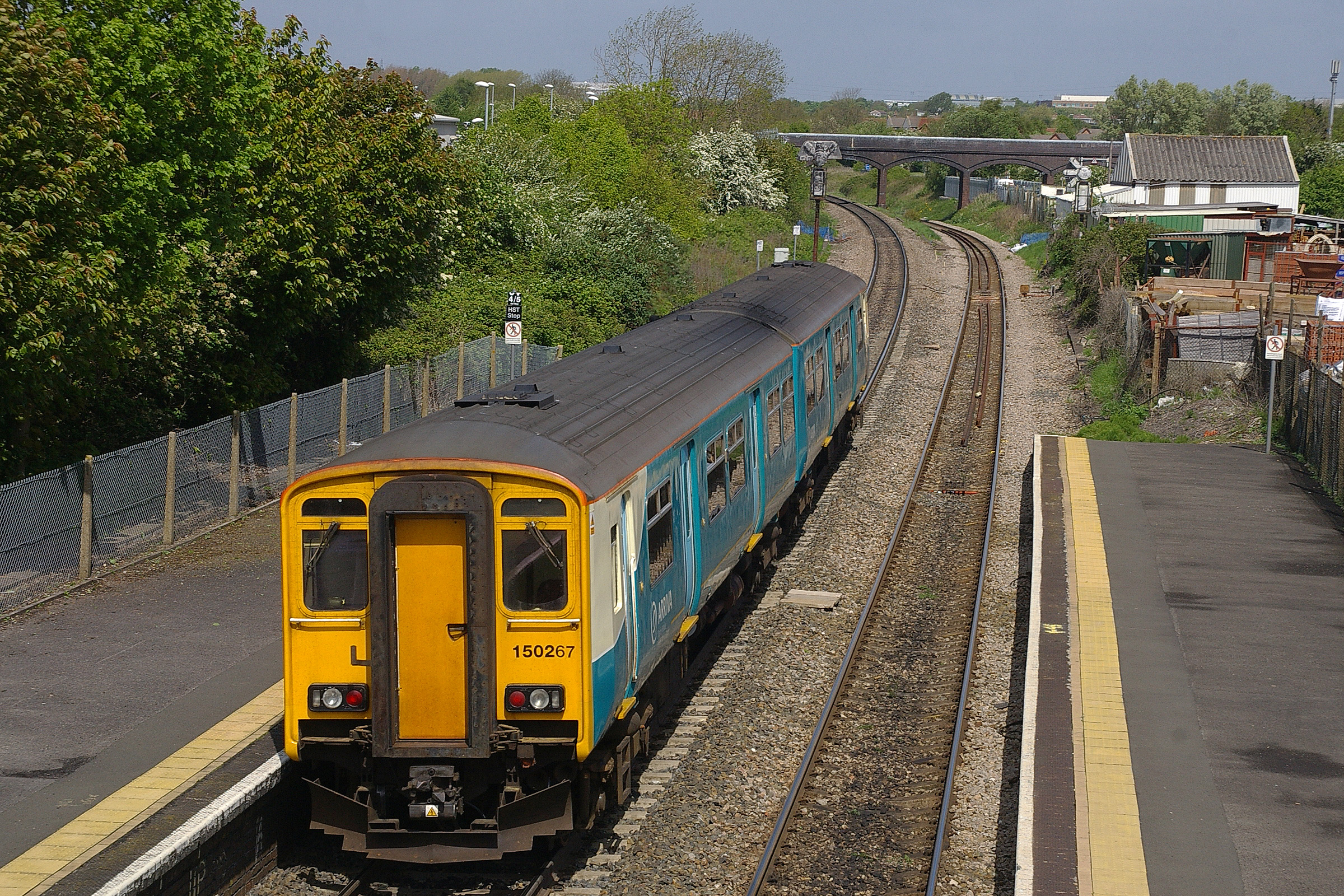 Arriva Trains Wales 150267 at Patchway railway station in Bristol.